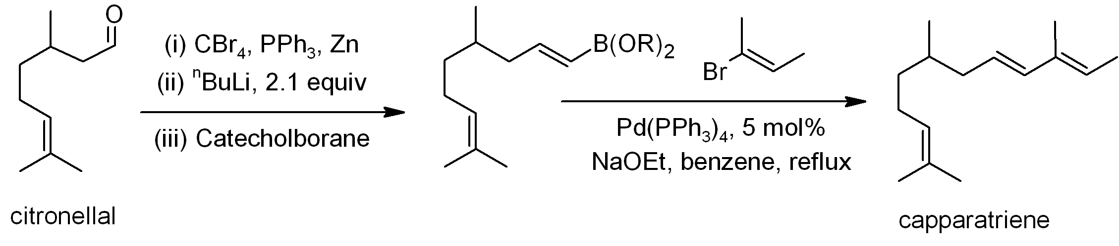 Synthesis of cappatriene from citronellal using a Suzuki coupling